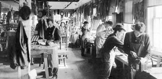 Photo from The Taylor Companies chair factory line.